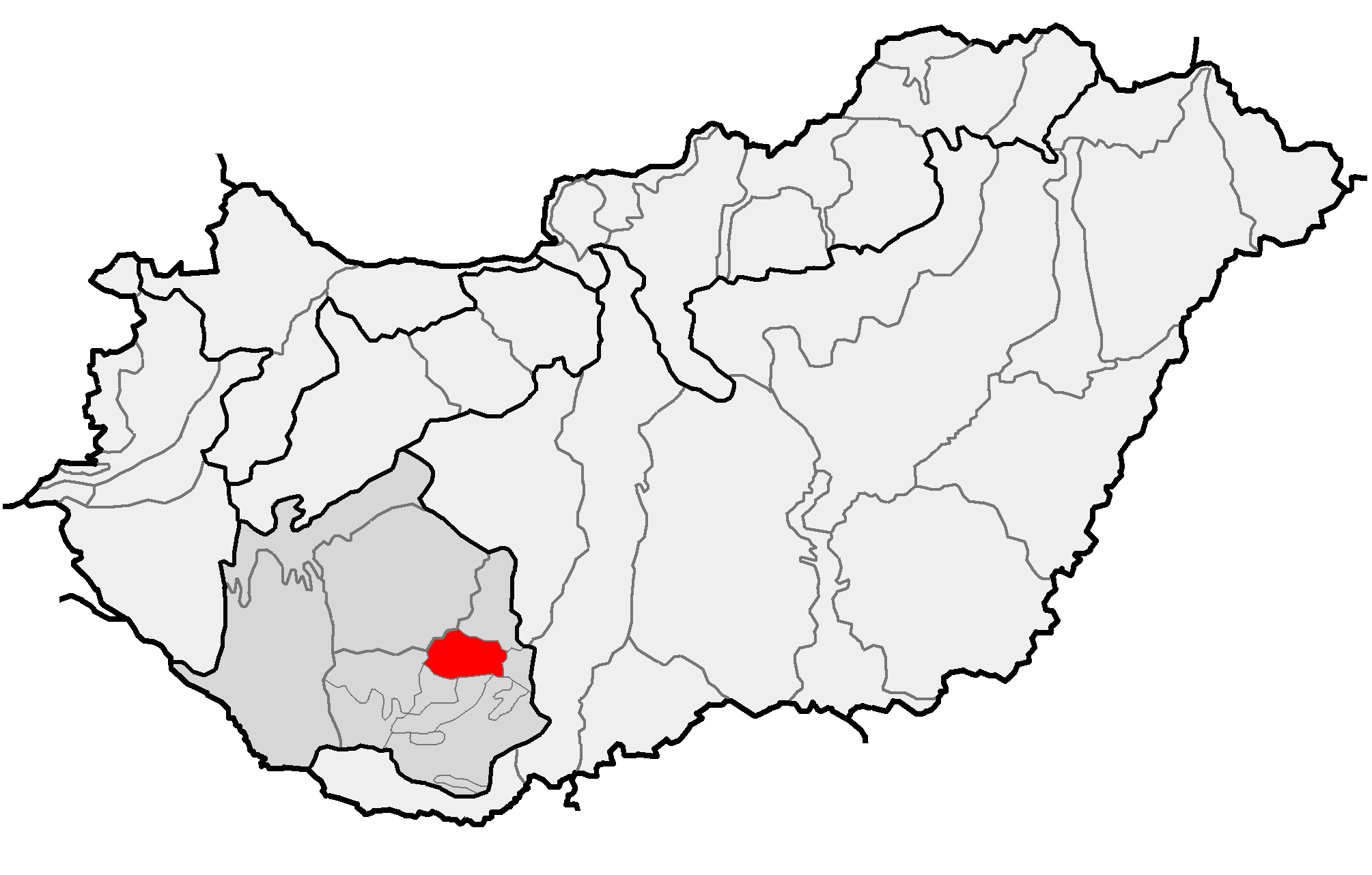 Location of geographical microregion of Völgység (red) and macroregion of Dunántúli-dombság (gray) within subdivisions of Hungary.